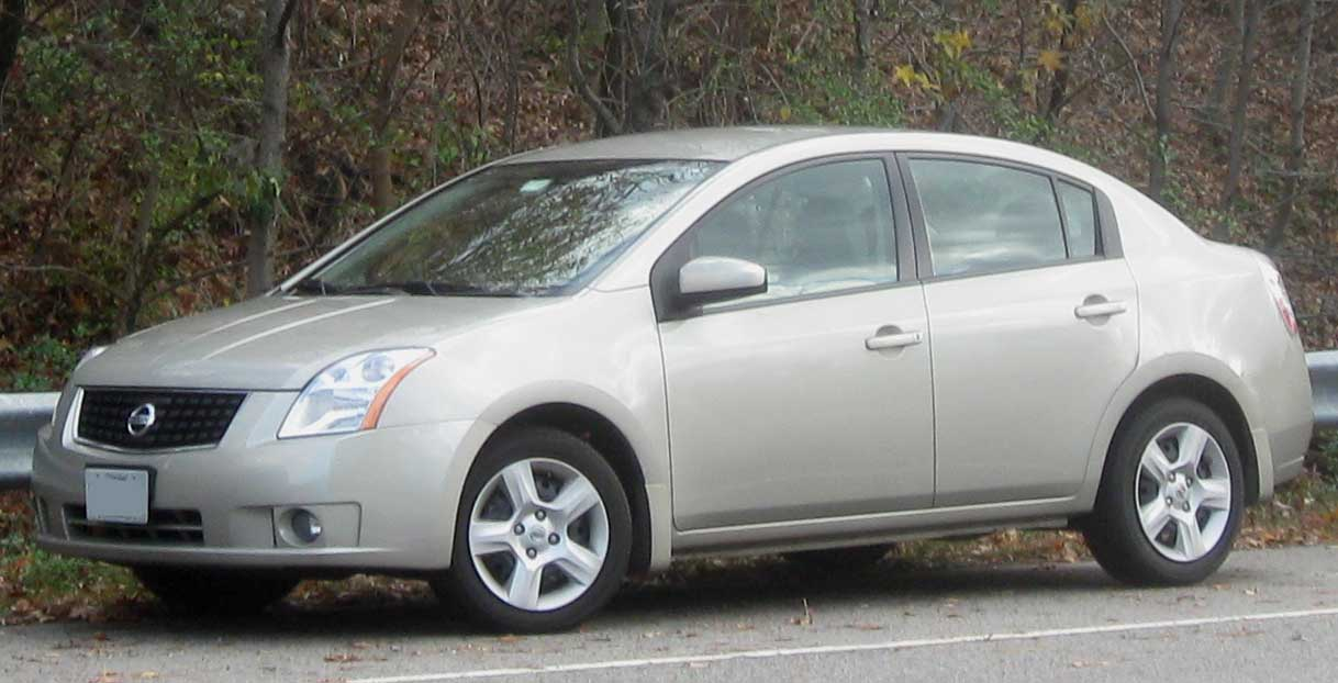 2007-2009 Nissan Sentra photographed in College Park, Maryland, USA.